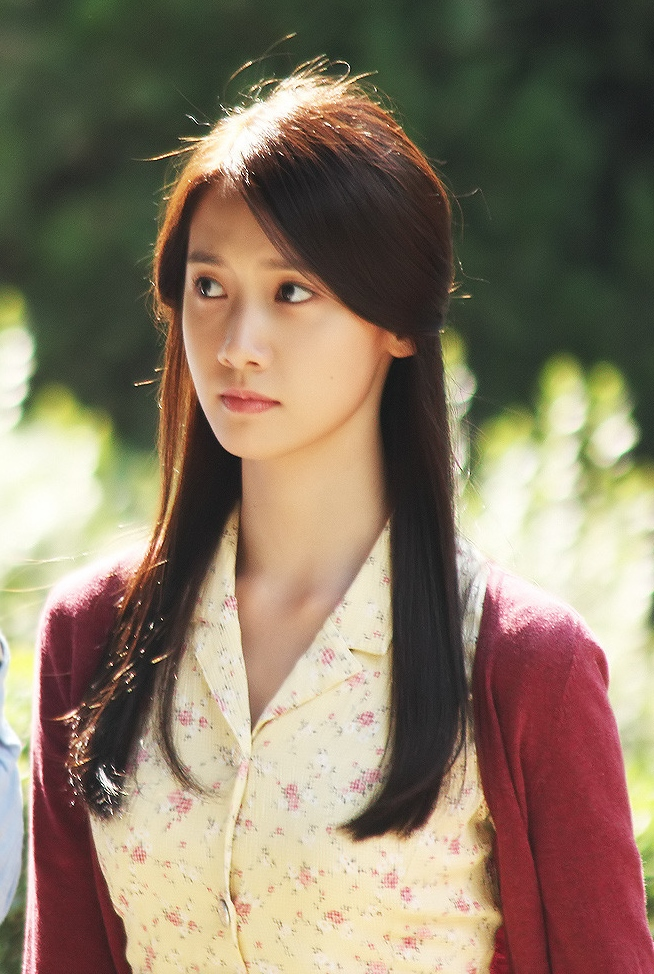 YoonA filming Love Rain on September 24, 2011.